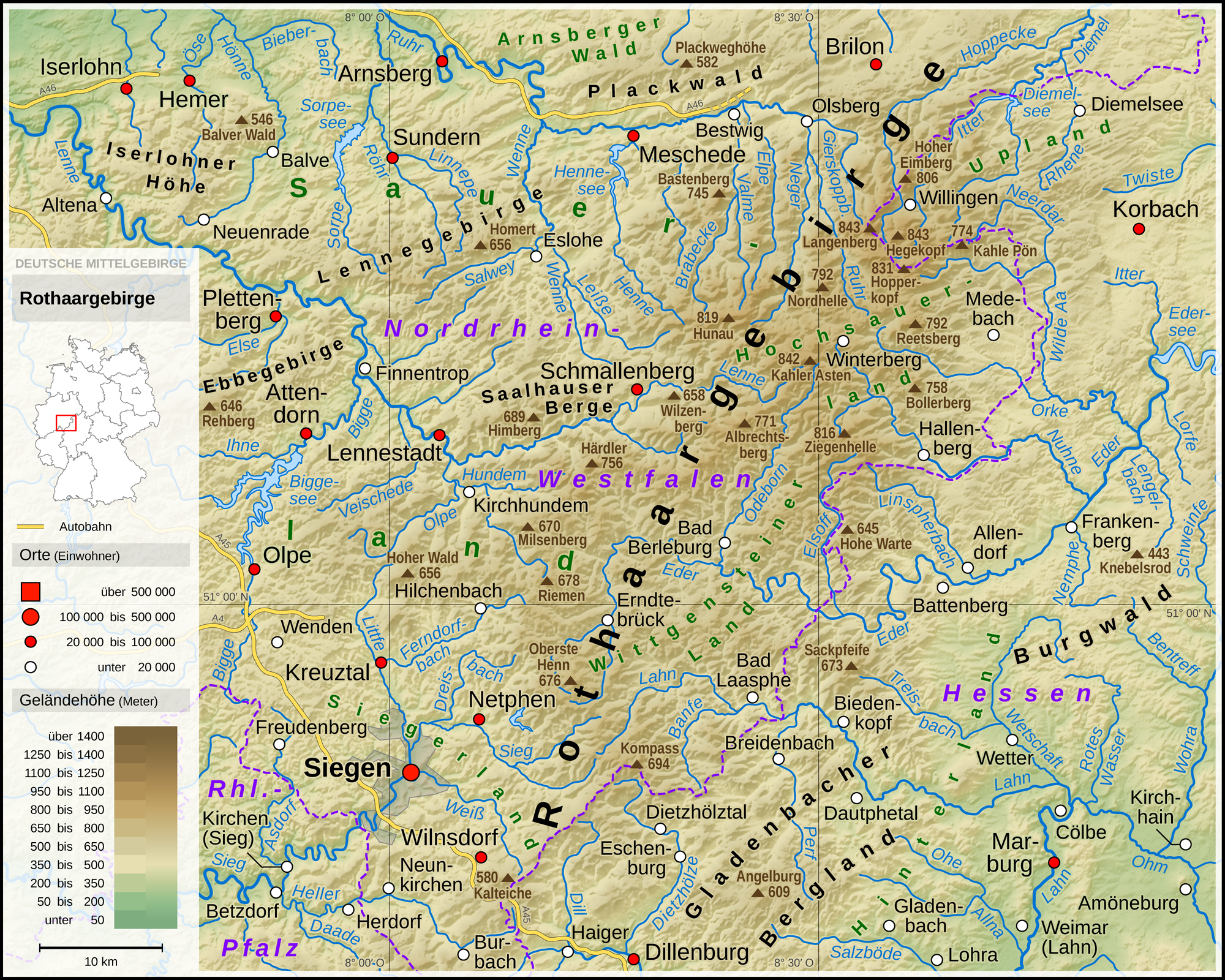 Topographic map of the Rothaar Mountains